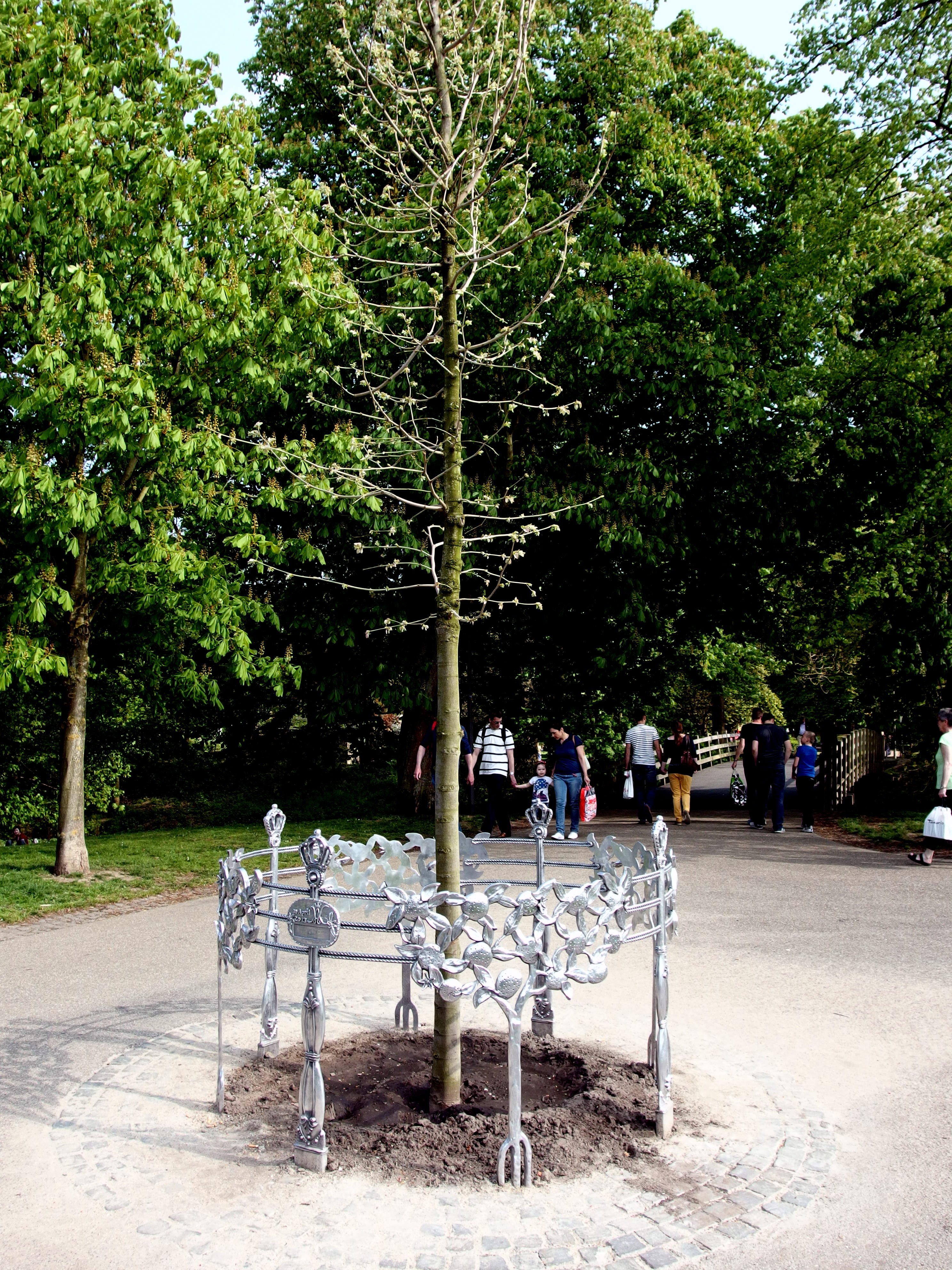 2013-05-04 Maastricht City Park; Tree planted for inauguration of King Willem Alexander of the Netherlands. ( Tilia europaea 'Pallida') Het hek werd ontworpen door Margot Berkman en gemaakt van hoogglans aluminium, dat met de hand werd gepolijst. Het hek heeft een doorsnee van 2 meter en een hoogte van 120 centimeter. Het bestaat uit acht delen, vier oranjebomen afgewisseld door vier koningsscepters.